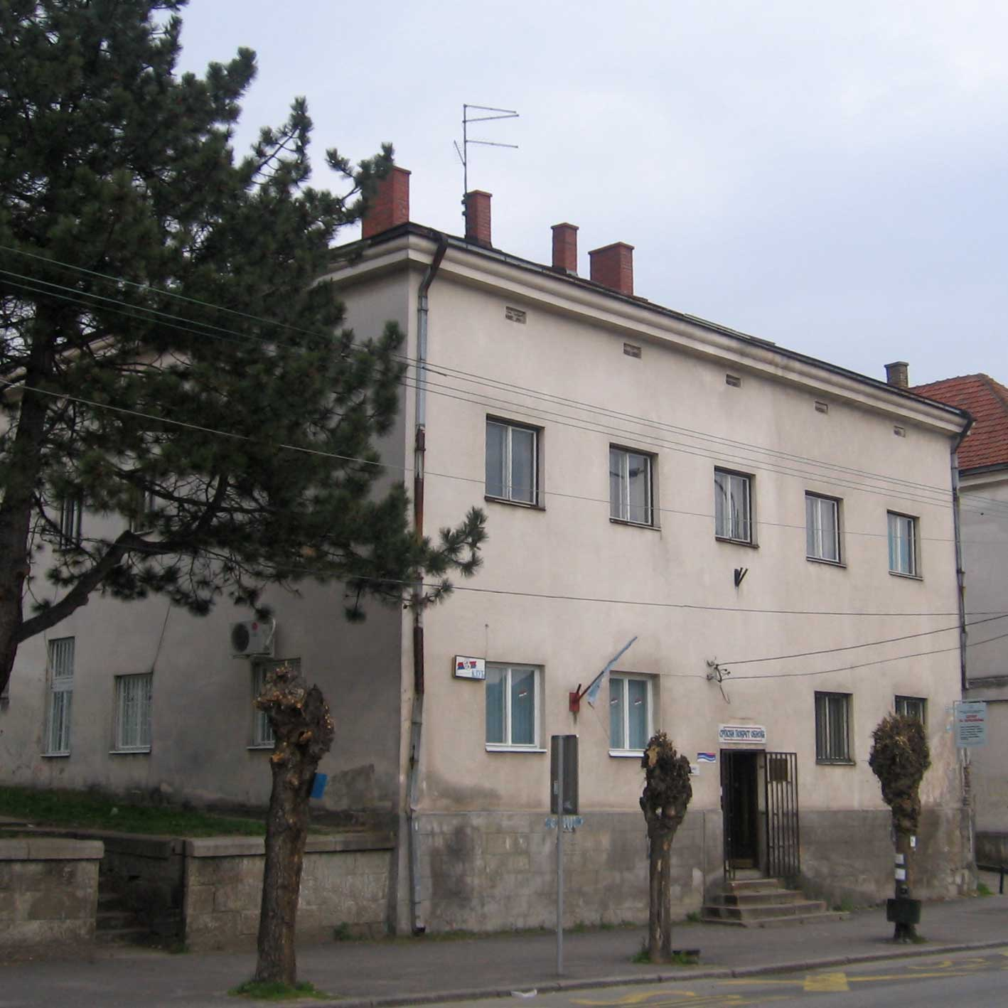 The building of old post office in Aranđelovac